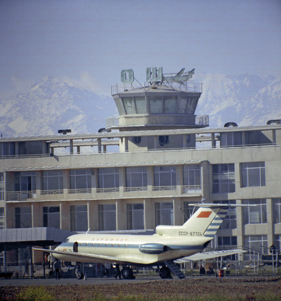 “Osh Airport”. Osh Airport,Kyrgyz Soviet Socialist Republic.